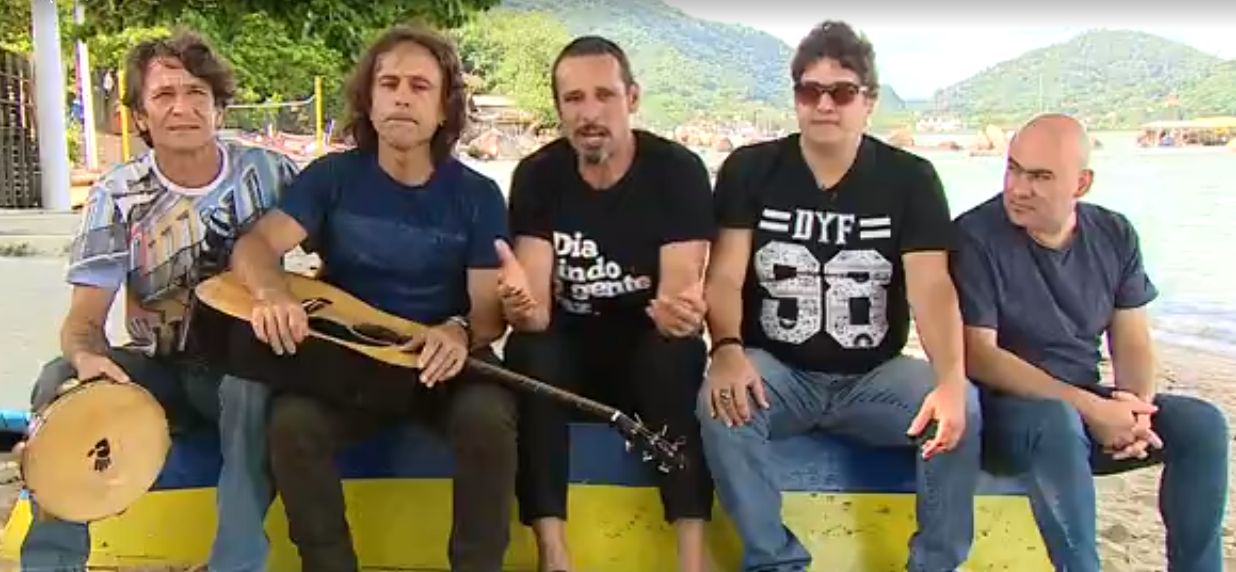 Dazaranha Band, from Florianópolis, Santa Catarina, Brazil.